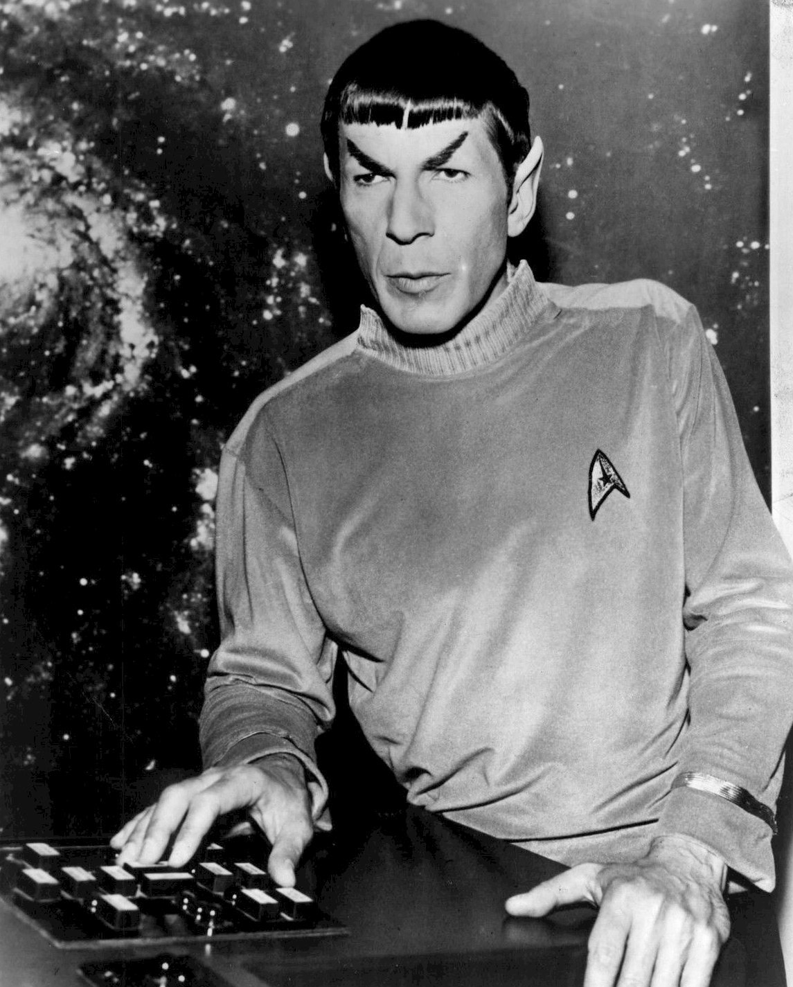 Photo of Leonard Nimoy as Spock from the television program Star Trek.